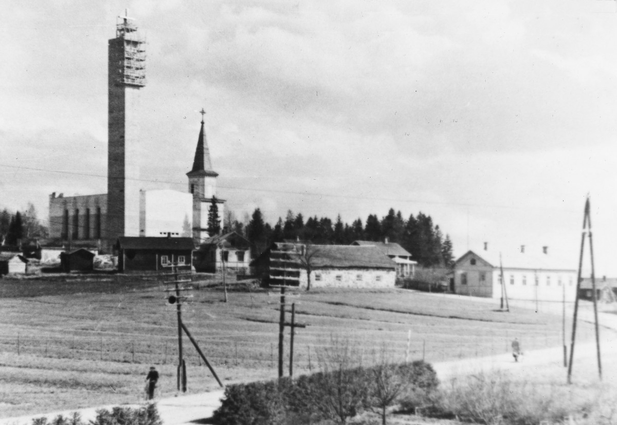 Nakkila old (1764) and new (1937) church before the old was demolished.